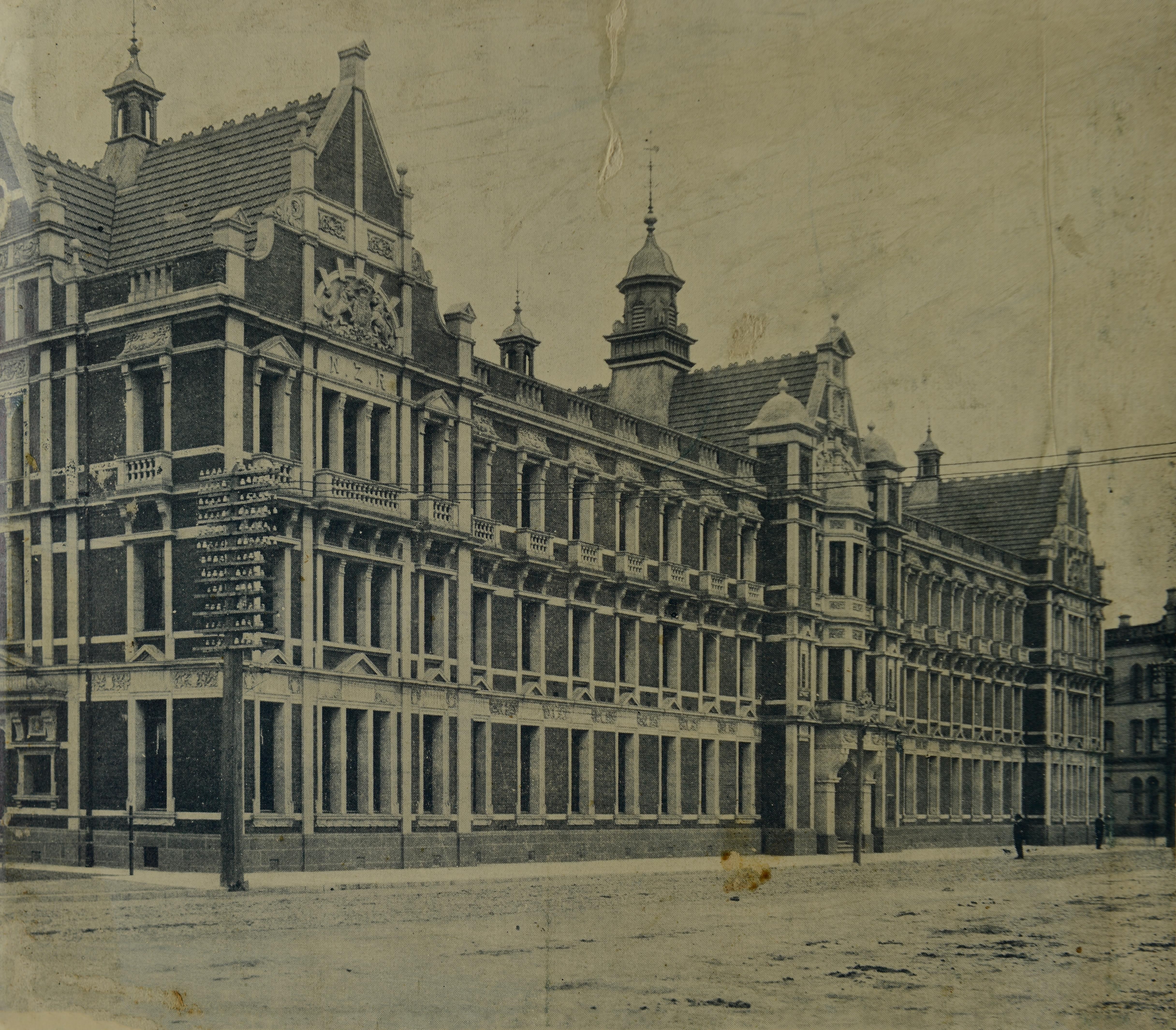 Archives Reference: ABIN W3337 207 R19600150 75 Featherston Street (Rydge's Hotel) From a collection of 'Should Auld Acquaintance Be Forgot' scrapbook of cards, photographs, newspaper clippings and card greetings for Christmas/New Year from various railway stations in New Zealand.